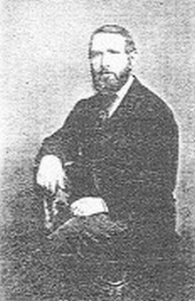 Etienne Poulenc (1823-1878)